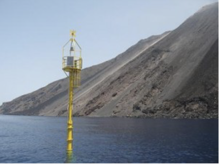 SAR allows collecting information on the state of deformation of the volcanic edifice, both in daylight and at night, also under adverse conditions.